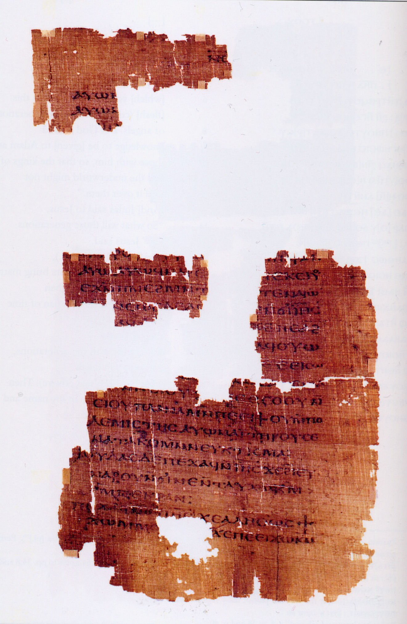 Page from Codex Tchacos.